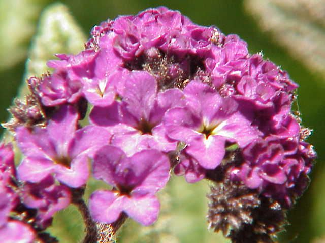 Species: Heliotropium arborescens Family: Boraginaceae Image No. 2